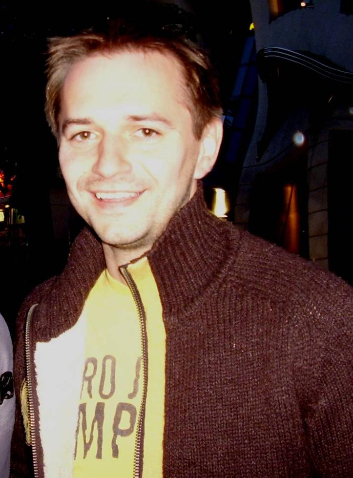 Actor Waldemar Barwiński.